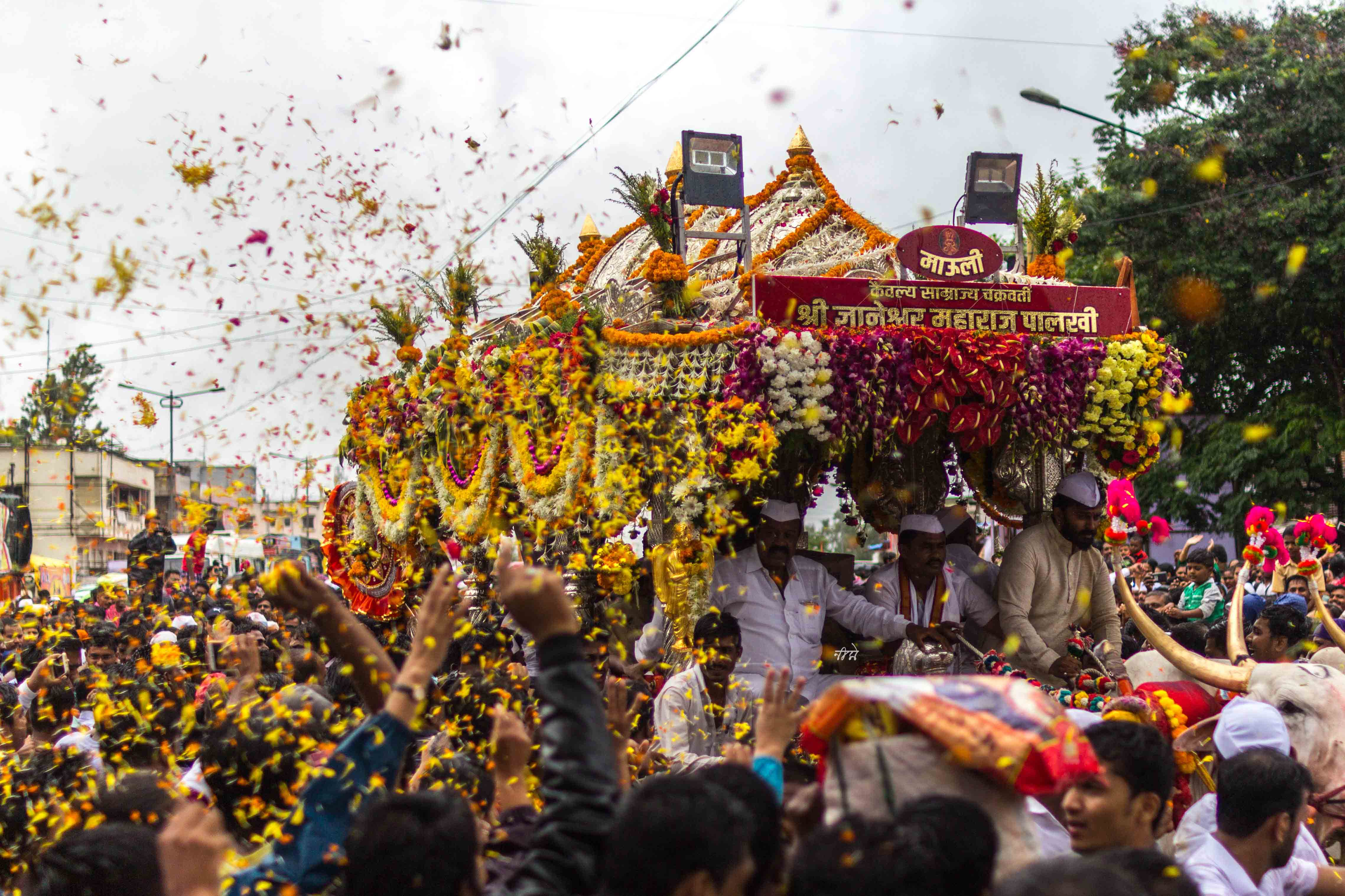 People start with Palkhi Wari approximately 16-20 days before Ashadhi Ekadashi to reach Pandharpur on foot. The article has more details for this pious pilgrimage. This photo has been taken in the country: India